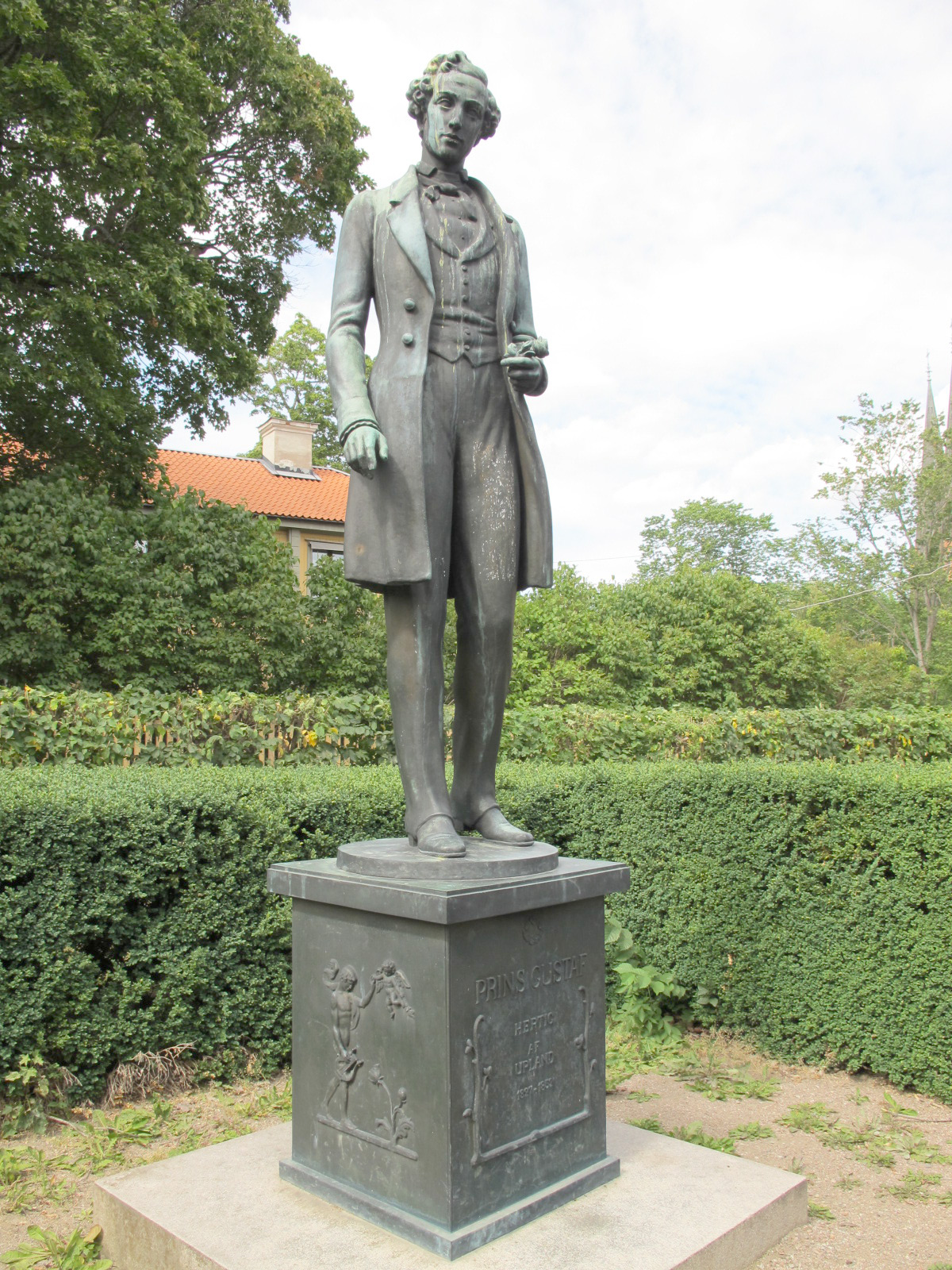 The statue of Prince Gustaf, Duke of Uppland (1827-1852) by Carl Eldh, erected near Carolina Rediviva in Uppsala